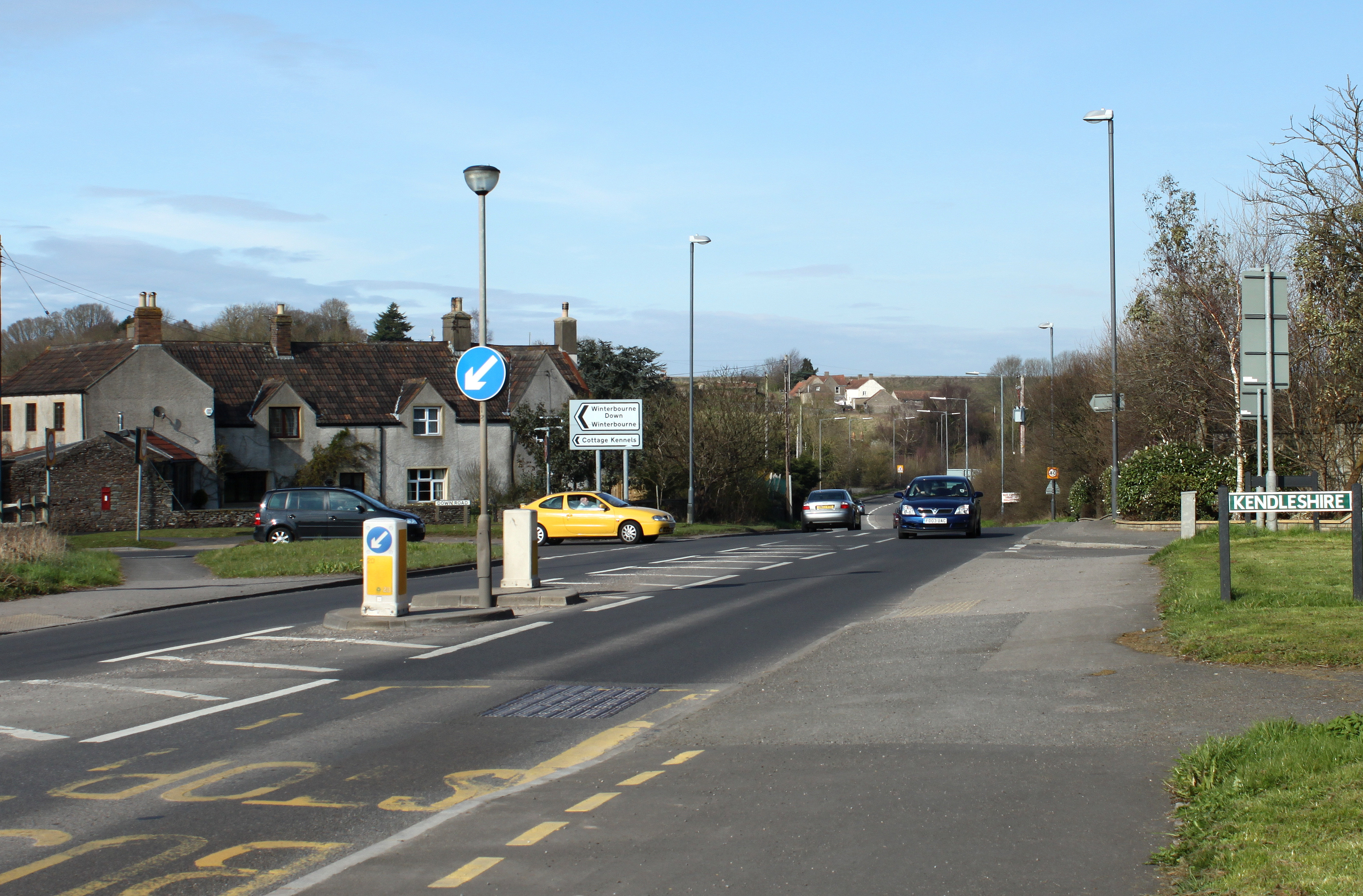 The A432 at Kendleshire, Gloucestershire, heading north-west (2011)